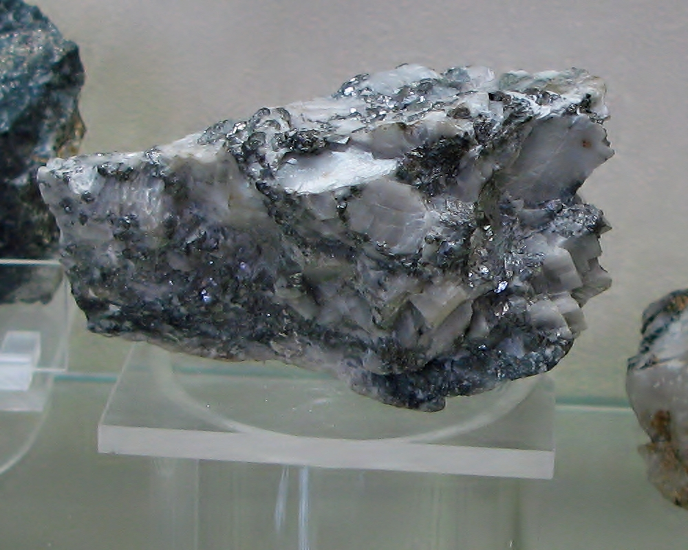 native Antimony - Locality: St. Andreasberg, Harz - Exposed in the Mineralogical Museum, Bonn, Germany